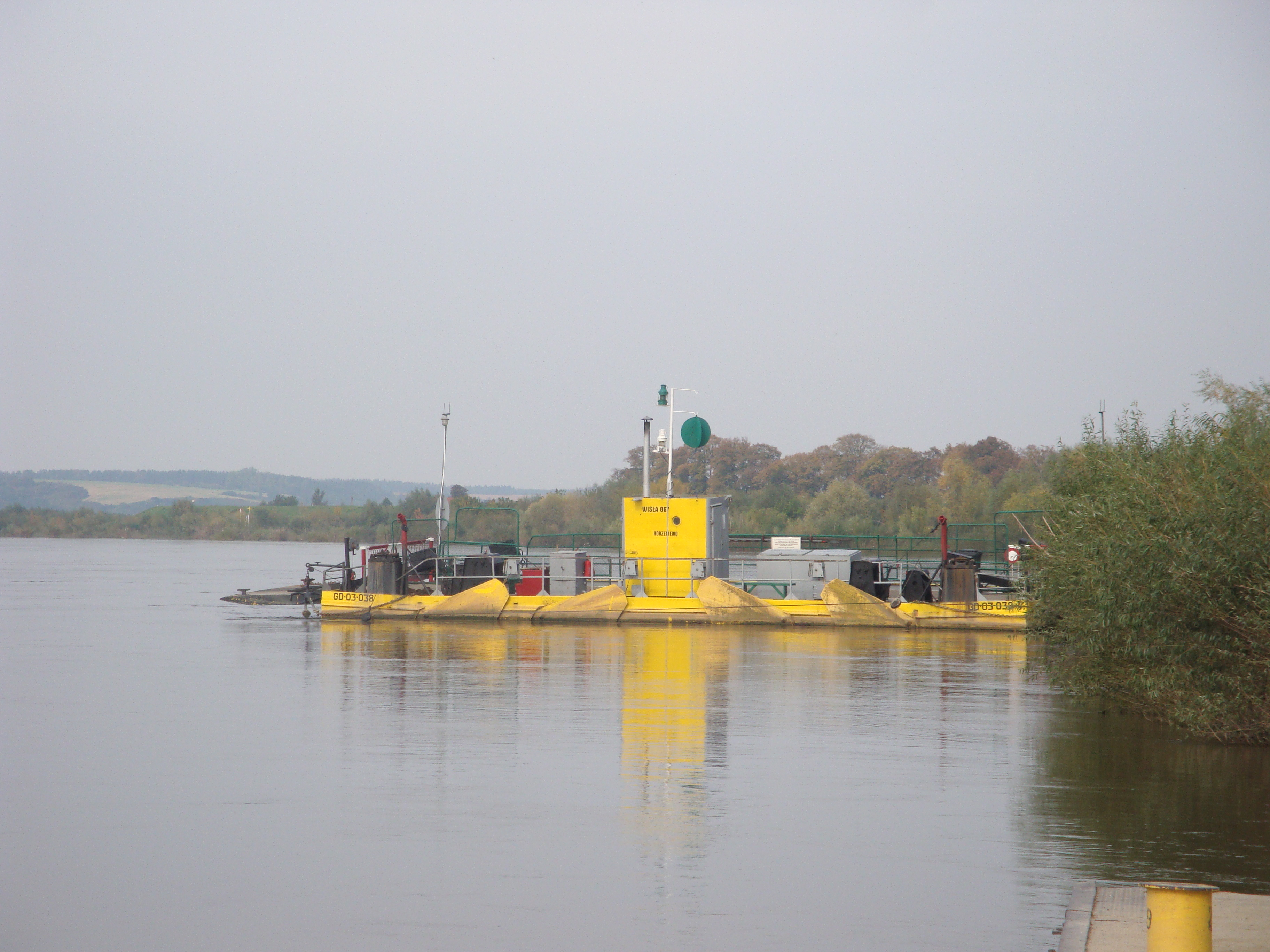 Korzeniewo-village near Kwidzyn, Poland. Ferry trough Vistula in National Road 90